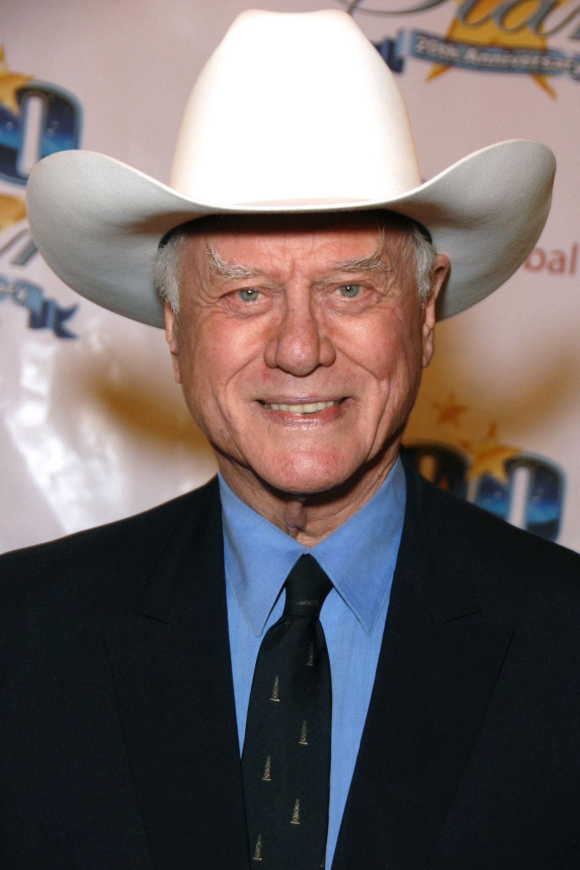 Larry Hagman attending the "Night of 100 Stars" for the 82nd Academy Awards viewing party at the Beverly Hills Hotel, Beverly Hills, CA on March 7, 2010 - Photo by Glenn Francis of